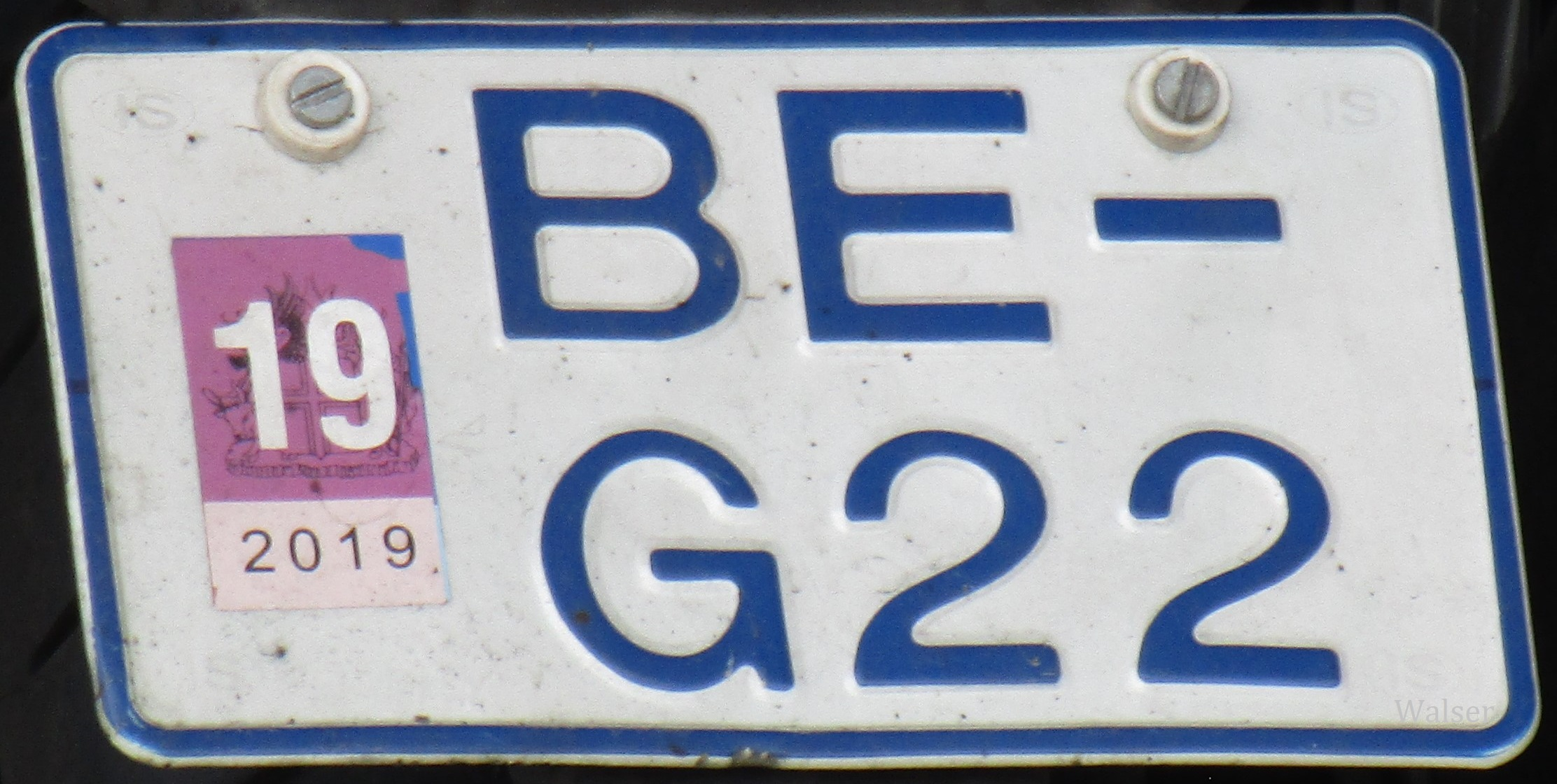 Iceland motorcycle plate, seen in Liechtenstein